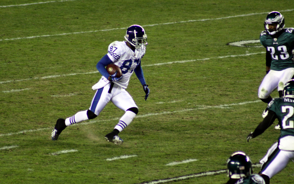 Reggie Wayne cuts vs. the Philadelphia Eagles during the 2010 season.